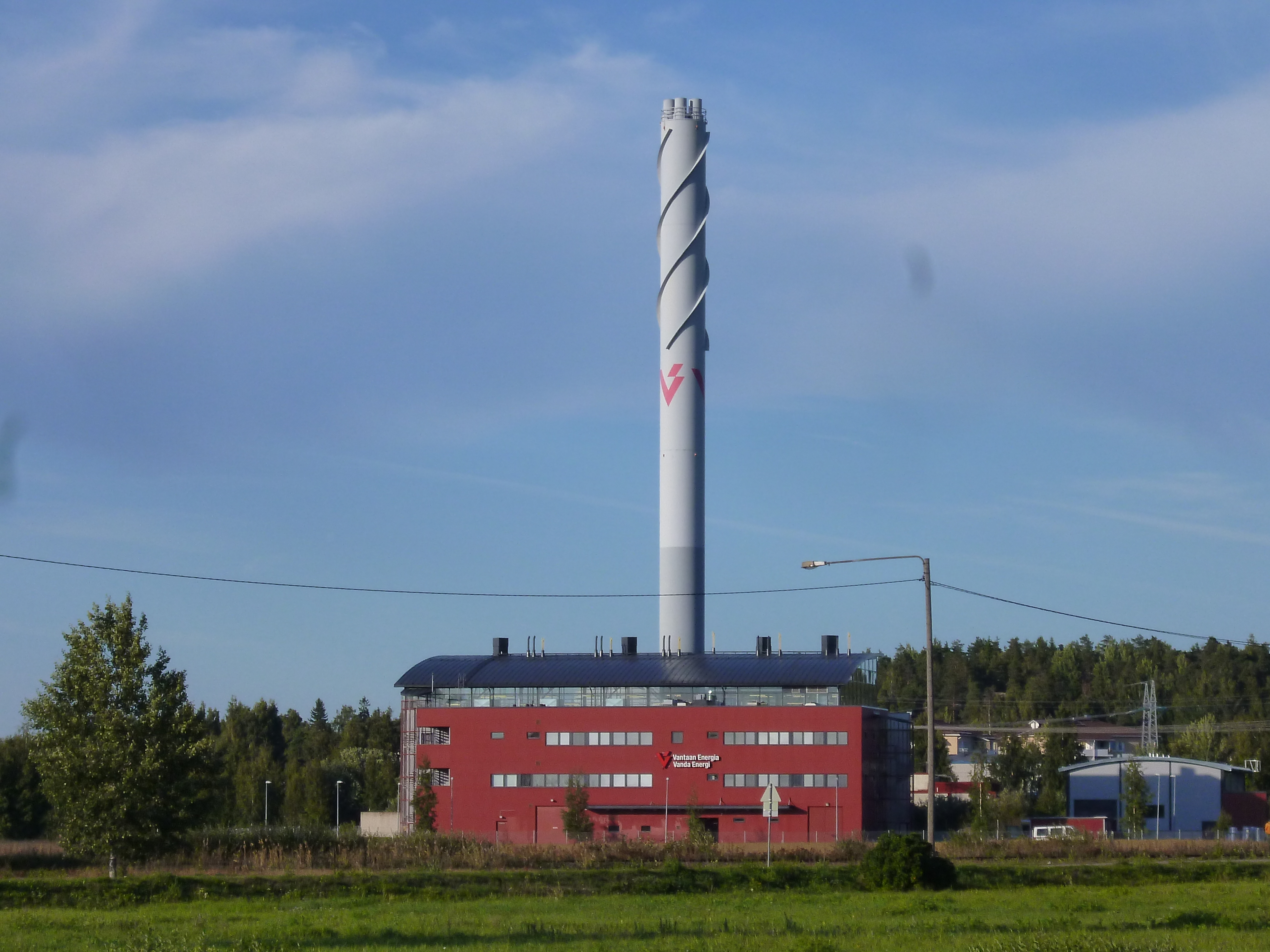 Vantaan Energia district heating Maarinkunnaan power plant.